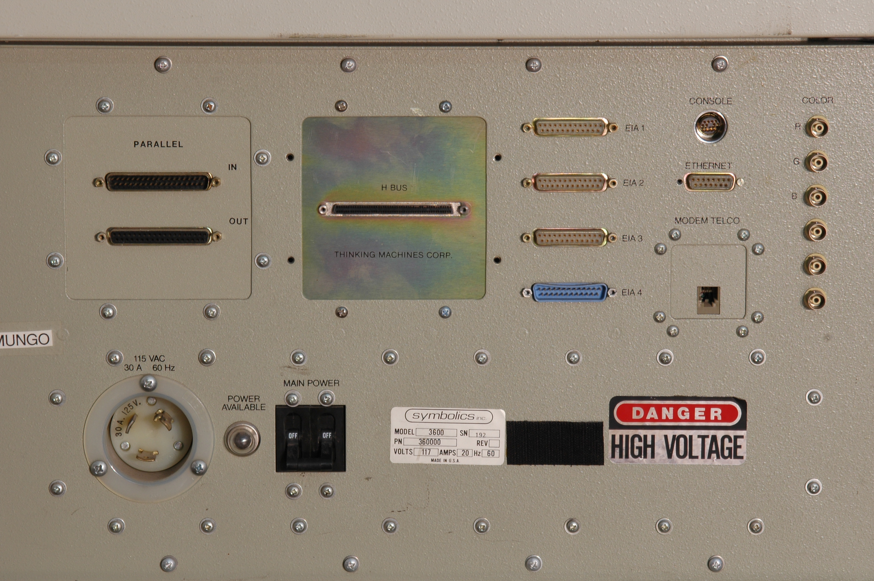 Ports on the back of a Symbolics 3600. This machine was used as a front-end to a Connection Machine supercomputer. From the collection of the RCS/RI.